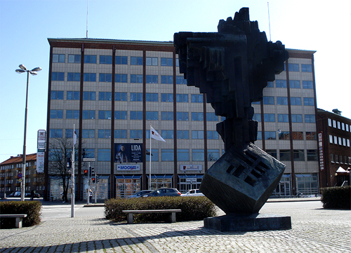 The sculpture "Till Axel Danielsson" by Willy Gordon 1973, situated in the Nobeltorget square in the city of Malmo. In the background is Folkets hus.